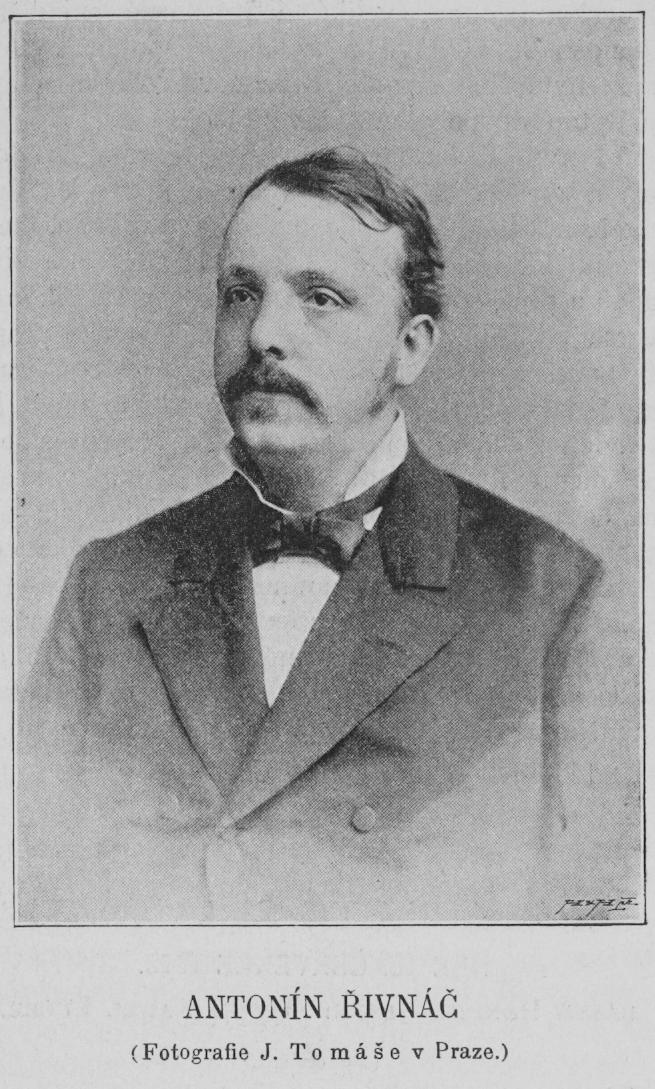 Portrait of Antonín Řivnáč (1843 - 1917), bookseller and publisher in Prague (present-day Czech Republic)